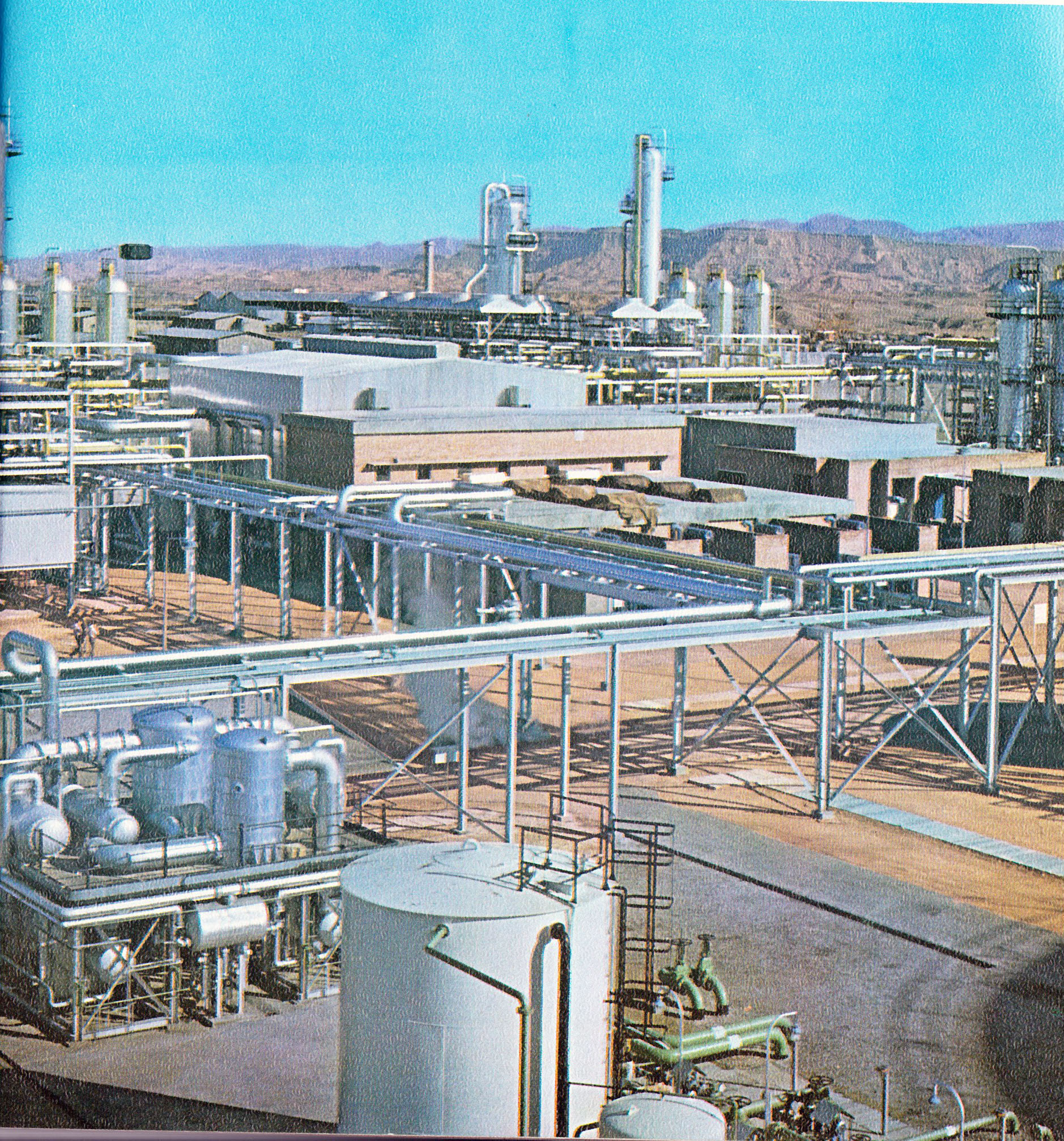 Gas Refinery in Bidboland Aghjary